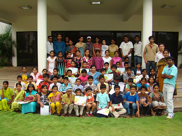 Participants and Volunteers of the first edition of Internet Safari, the Internet Awareness Training Programme, organized by ISiM in association with National Internet Exchange of India (NIXI), Department of Science and Technology, Government of India, at ISiM, Mysore.